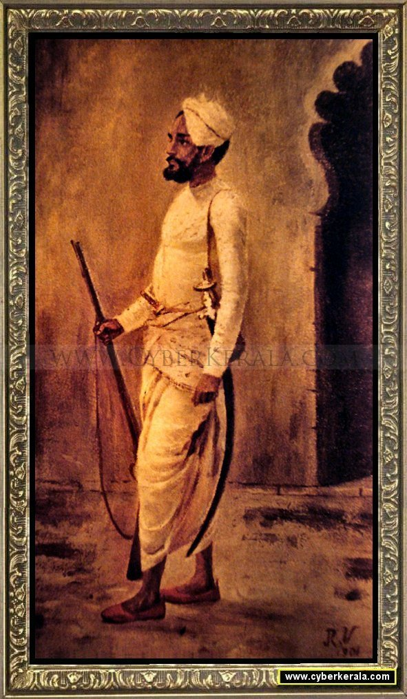 134. Rajput Soldier - Portrait of a Rajput Soldier, presumably from the Udaipur Palace, Rajasthan. Oil painting on canvas by Raja Ravi Varma dated 1901 - Sri Chitra Art Gallery, Thiruvananthapuram, Kerala.